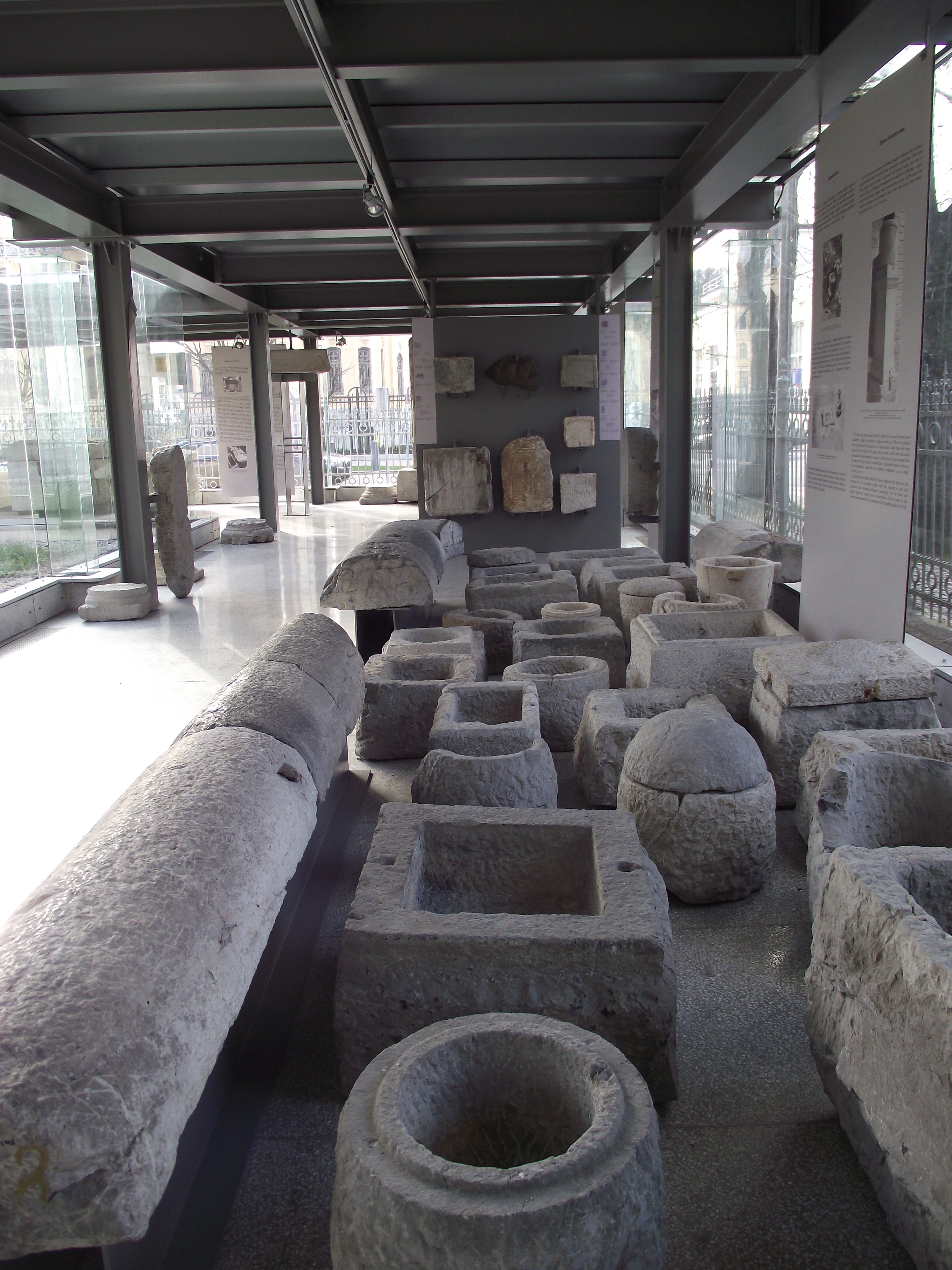 Ljubljana - National Museum: Roman Artefacts